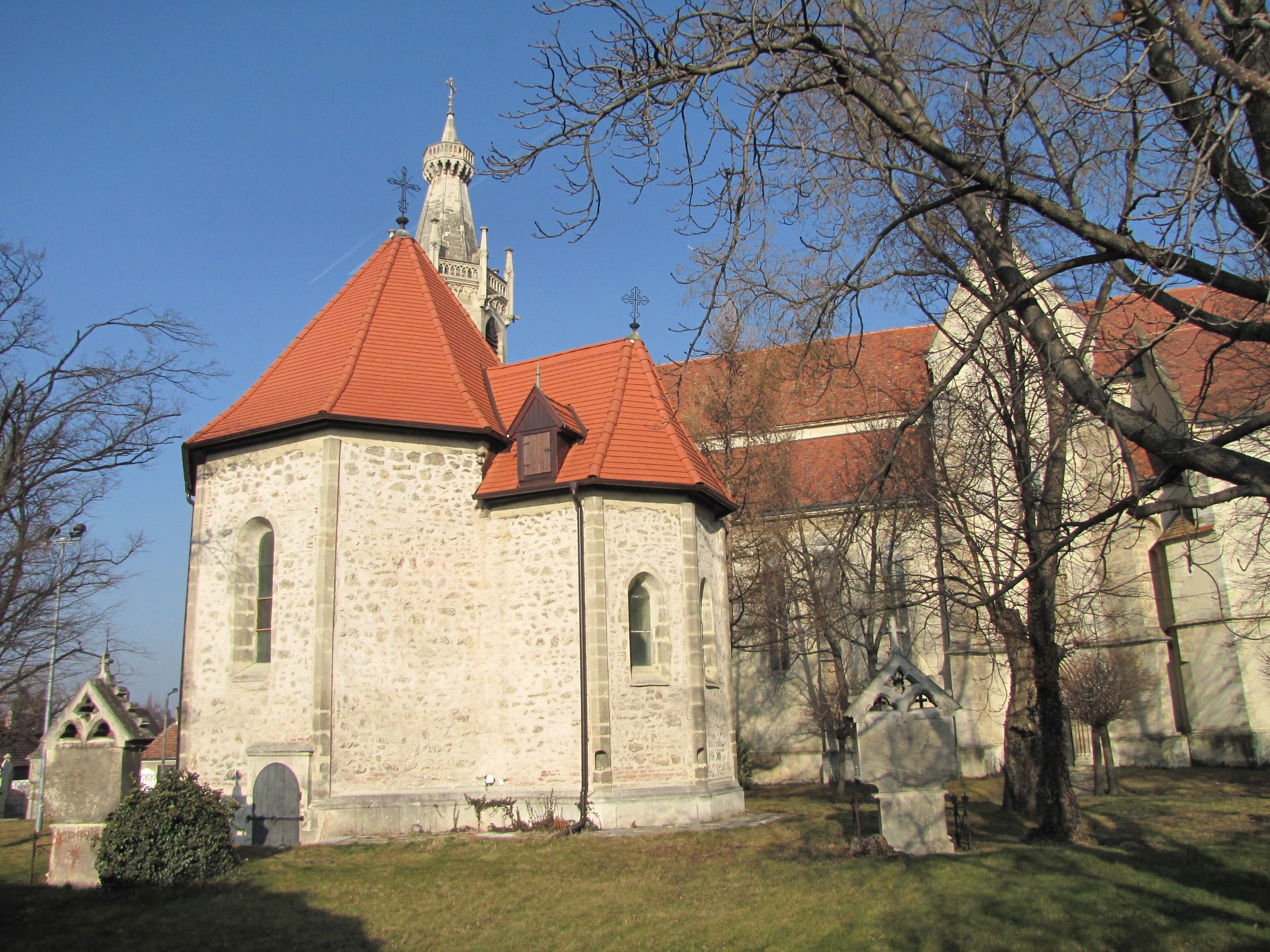 Sopron, Chapel of St James.